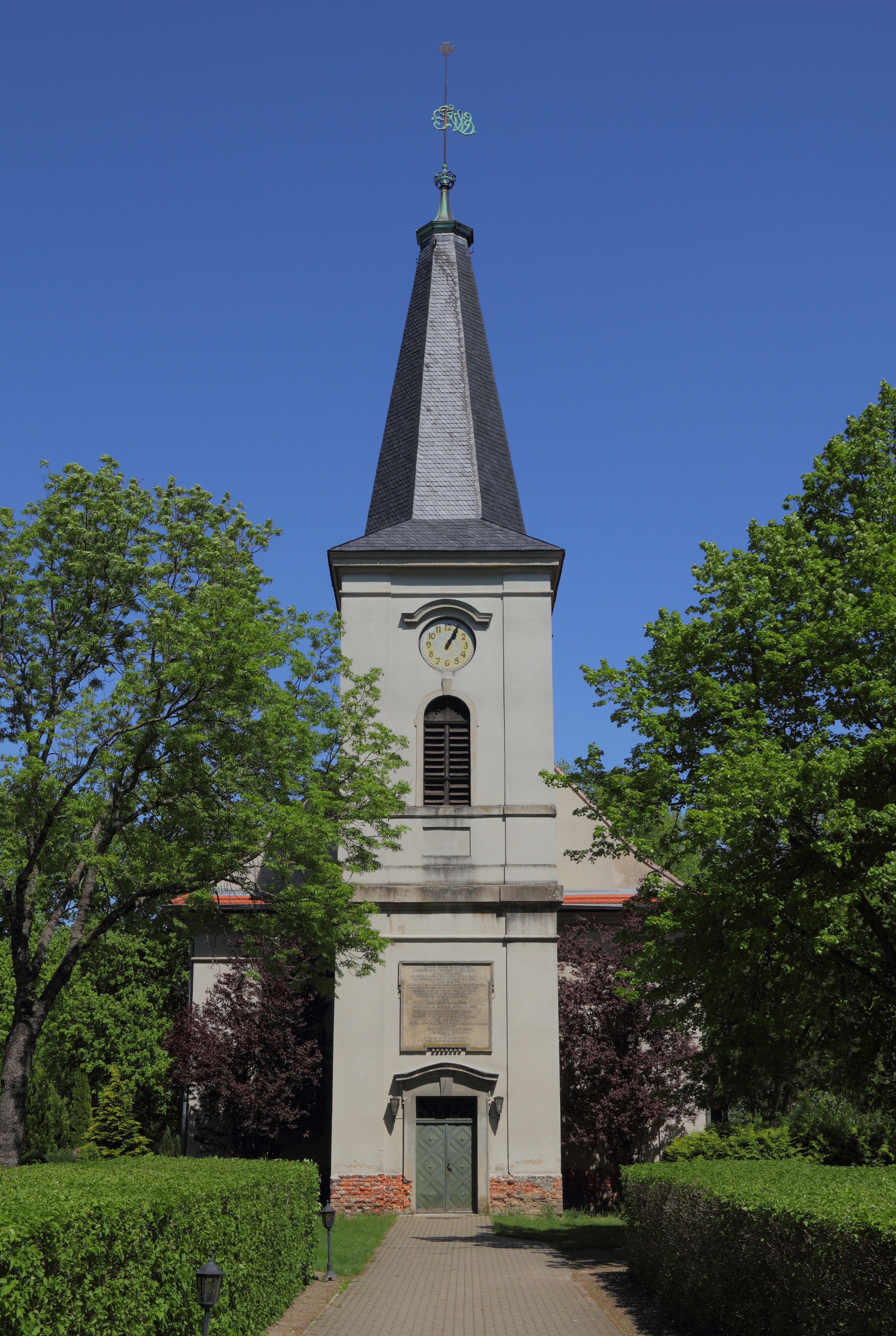 Village church in Königshorst, Fehrbellin municipality, Ostprignitz-Ruppin district, Brandenburg state, Germany